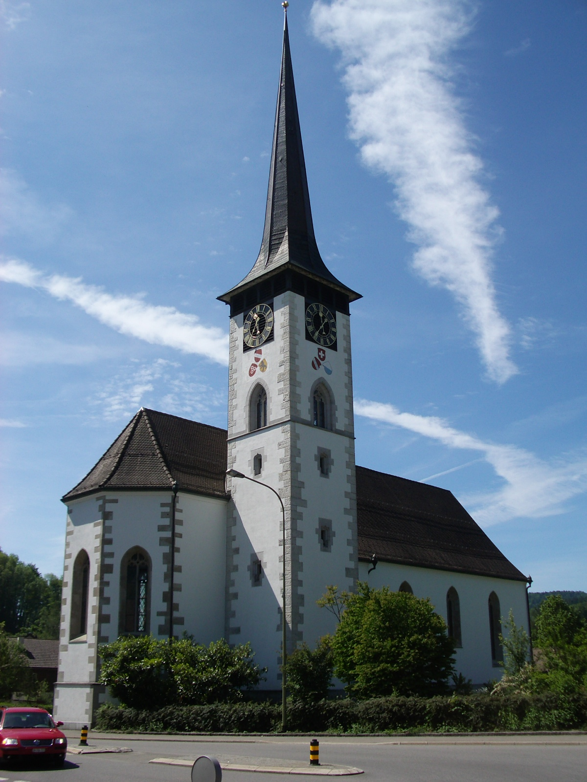 Turbenthal ZH, Switzerland, reformed church, steeple with painting of coat of arms by Alfred Marxer